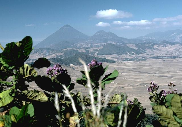 Rounded hills in the middle are part of a chain of lava domes of the Almolonga volcanic field in Guatemala. The two peaks are Santa María volcano to the left and Cerro Quemado to the right.